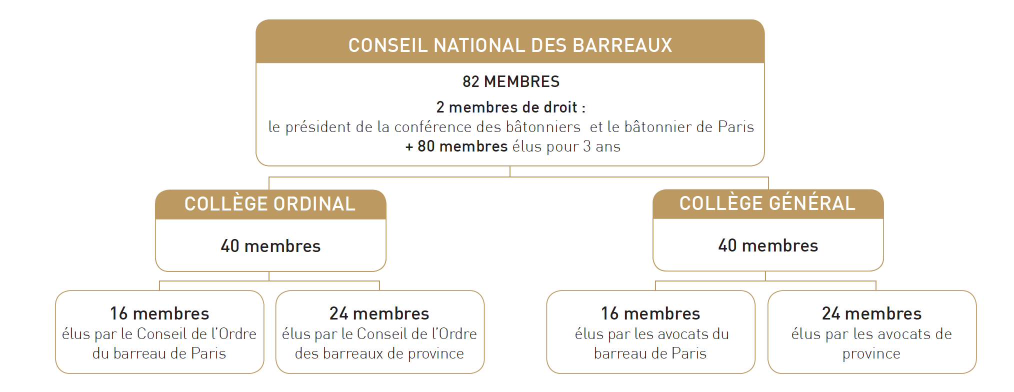 Schema which explains the French National Bar Council's composition